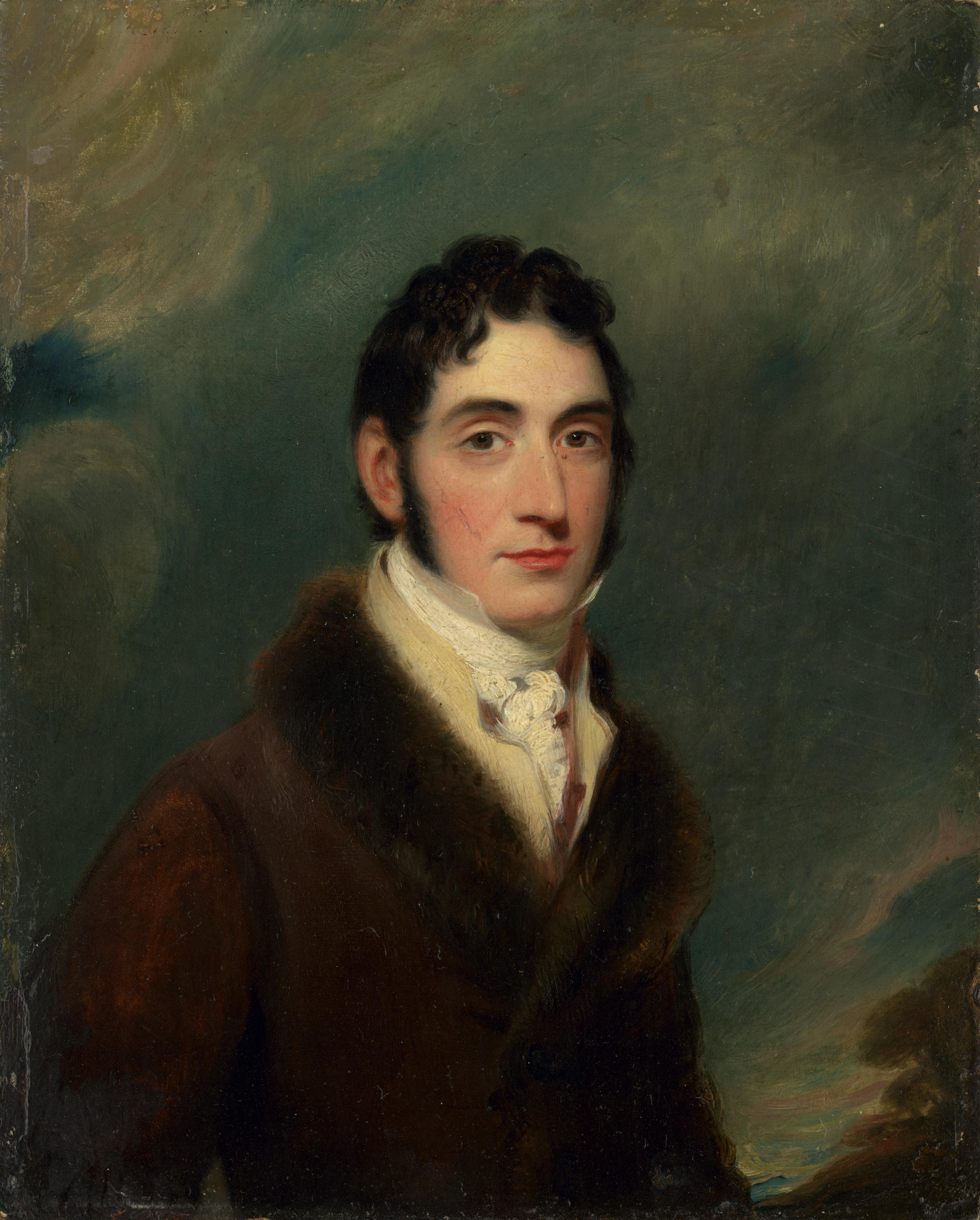 A painted portrait of William Lyttelton, 3rd Baron Lyttelton (3 April 1782 – 30 April 1837), an English Whig politician. Originally attributed to Sir Thomas Lawrence, the National Library of Australia has dated to 1849 the prepared millboard supplied by Winsor & Newton which supports the work. It is therefore believed to be a copy of an original c. 1805–1810 portrait by Lawrence which hung at Hagley Hall, Hagley, Worcestershire, England, UK, and was destroyed in a 1925 fire.